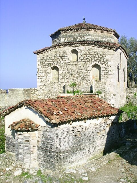 Town of Krujë, Albania